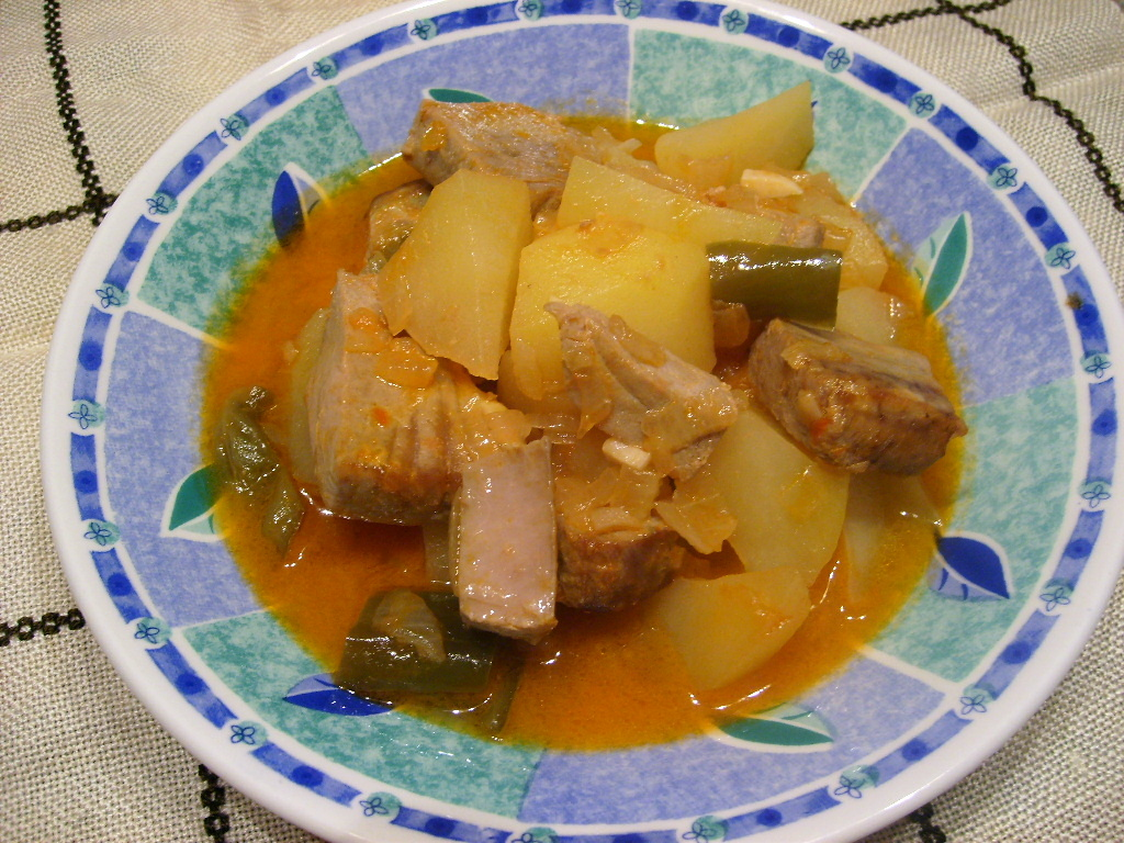 Tuna pot, Cantabrian and Basque typical dish. Montañés: Sorropotún o marmite, platu típicu de Cantabria y País Vascu.